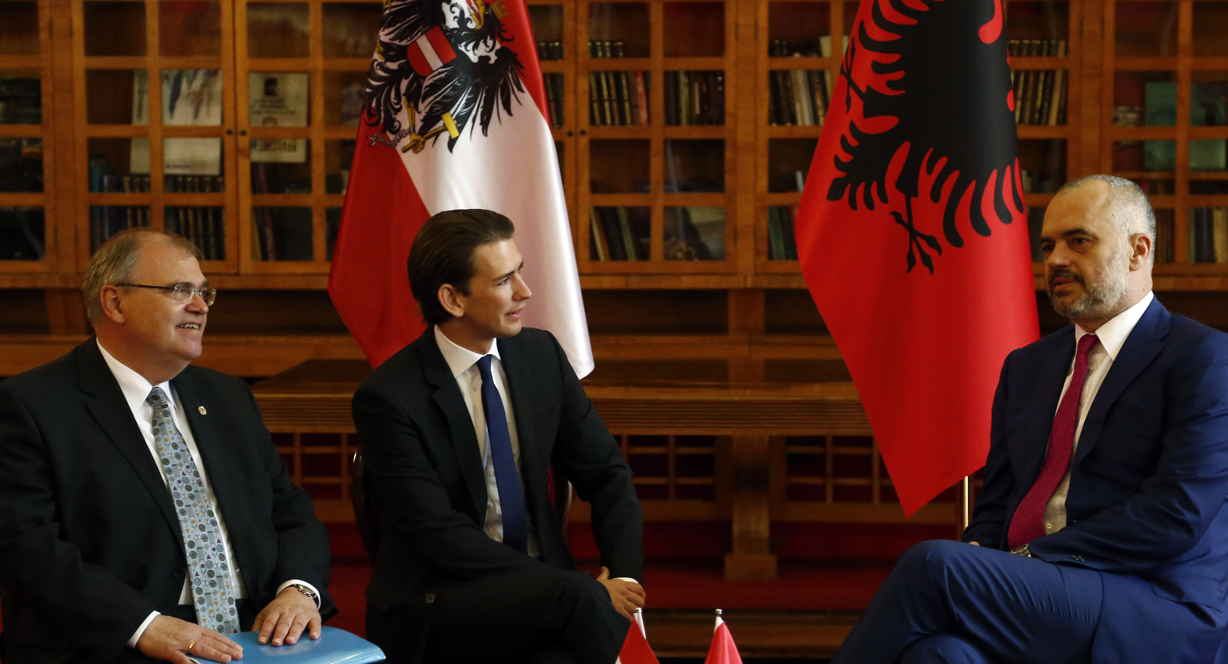 Visit to Albania: Austrian Foreign Minister Sebastian Kurz and Austrian Justice Minister Wolfgang Brandstetter meet the Albanian Prime Minister Edi Rama in Tirana, Albania. June 17, 2014.